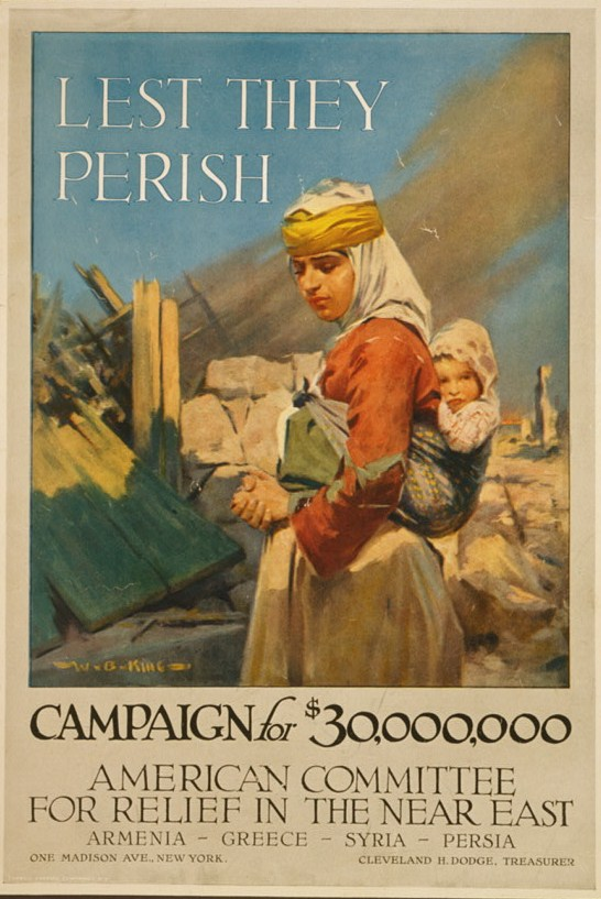 est they perish Campaign for $30,000,000 - American Committee for Relief in the Near East--Armenia-Greece-Syria-Persia